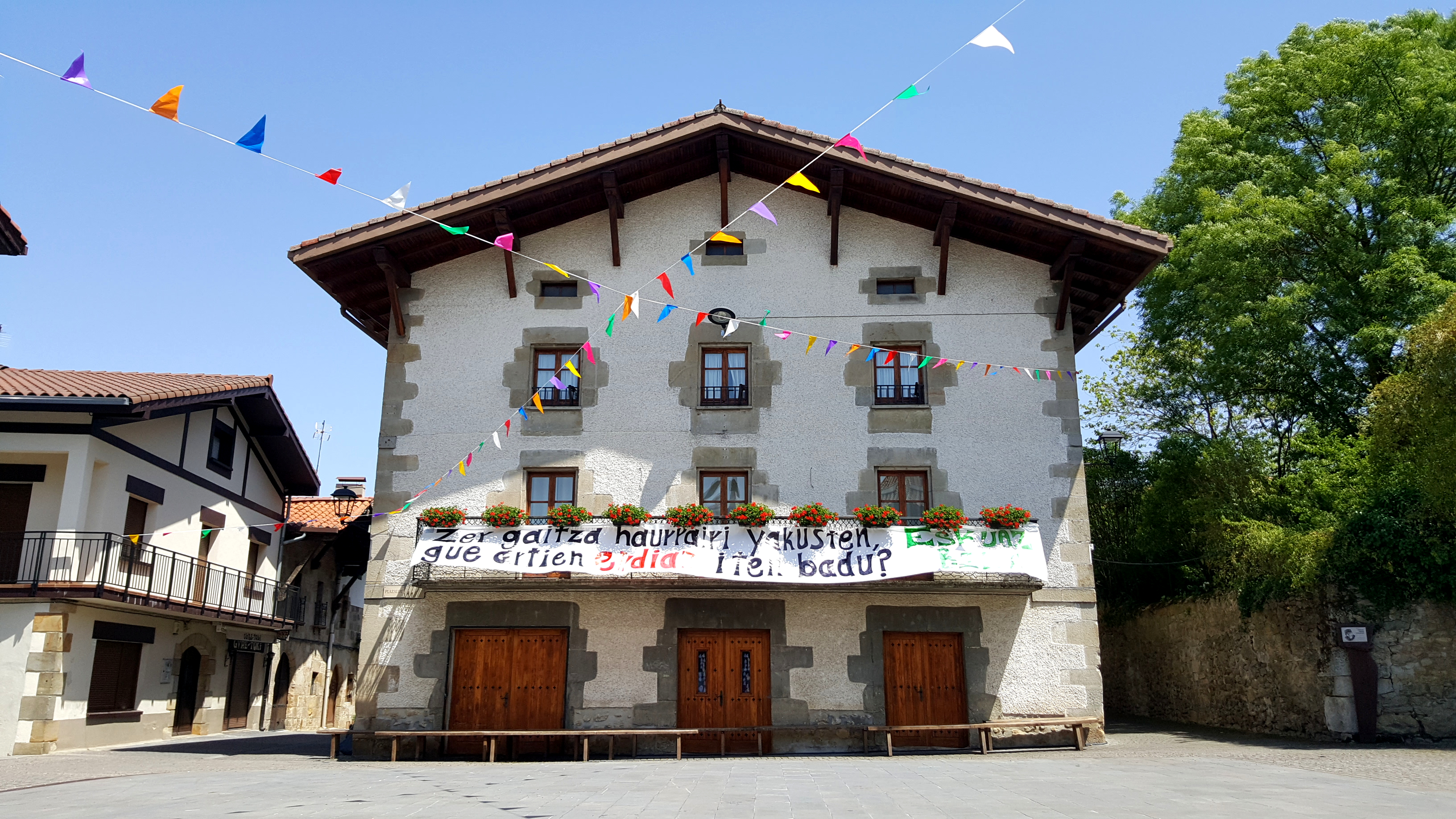 The townhall in Urdiain (Navarre)